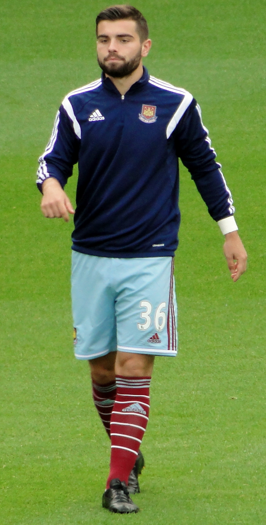 West Ham United player, Elliot Lee warming up before their Premier League game against Queens Park Rangers at the Boleyn Ground, October 2014